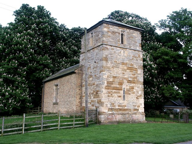 St Michael's parish church, Buslingthorpe, Lincolnshire, seen from the northwest